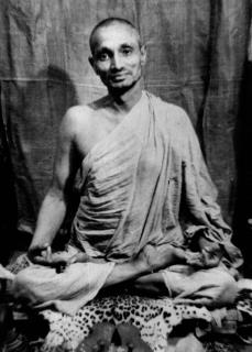 Sridharswami